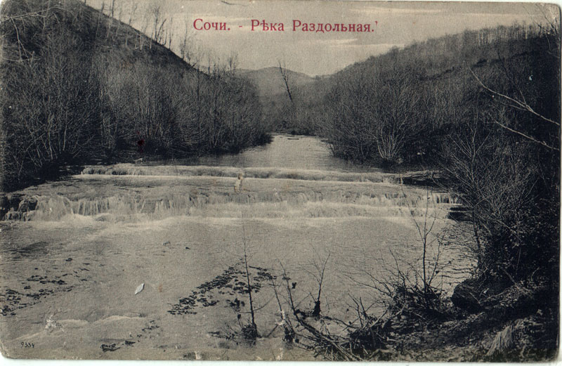 View on the Razdolnaya (Bzugu) river near Sochi, Russia